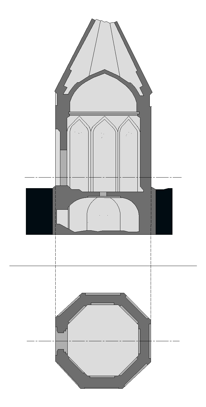 Plan of Mausoleum of Jussuf ibn Kusejir, Source: Corvina Kiadó, Ilona Turánsky, Károly Gink: Aserbaidschan - Paläste, Türme, Moscheen. Budapest 1980, deutsch von Tilda und Paul Alpári